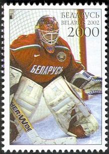 Andrei Mezin, National ice hockey keeper of Belarus on a stamp for the 2002 Winter Olympics, Salt Lake City